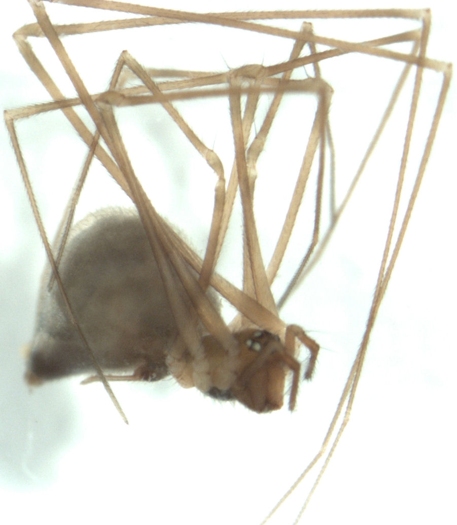 adult female Pahoroides sp., probably P. courti, from Maungatautari, New Zealand WO